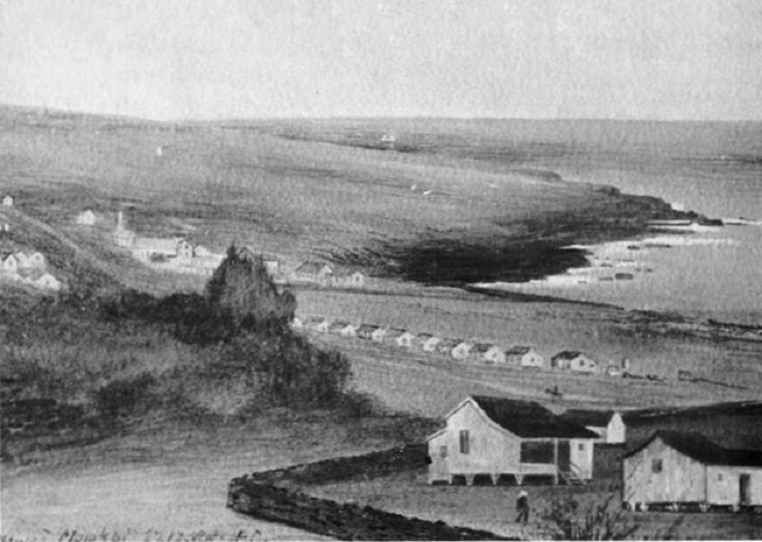 View of the Kalaupapa Settlement by Edward Clifford.